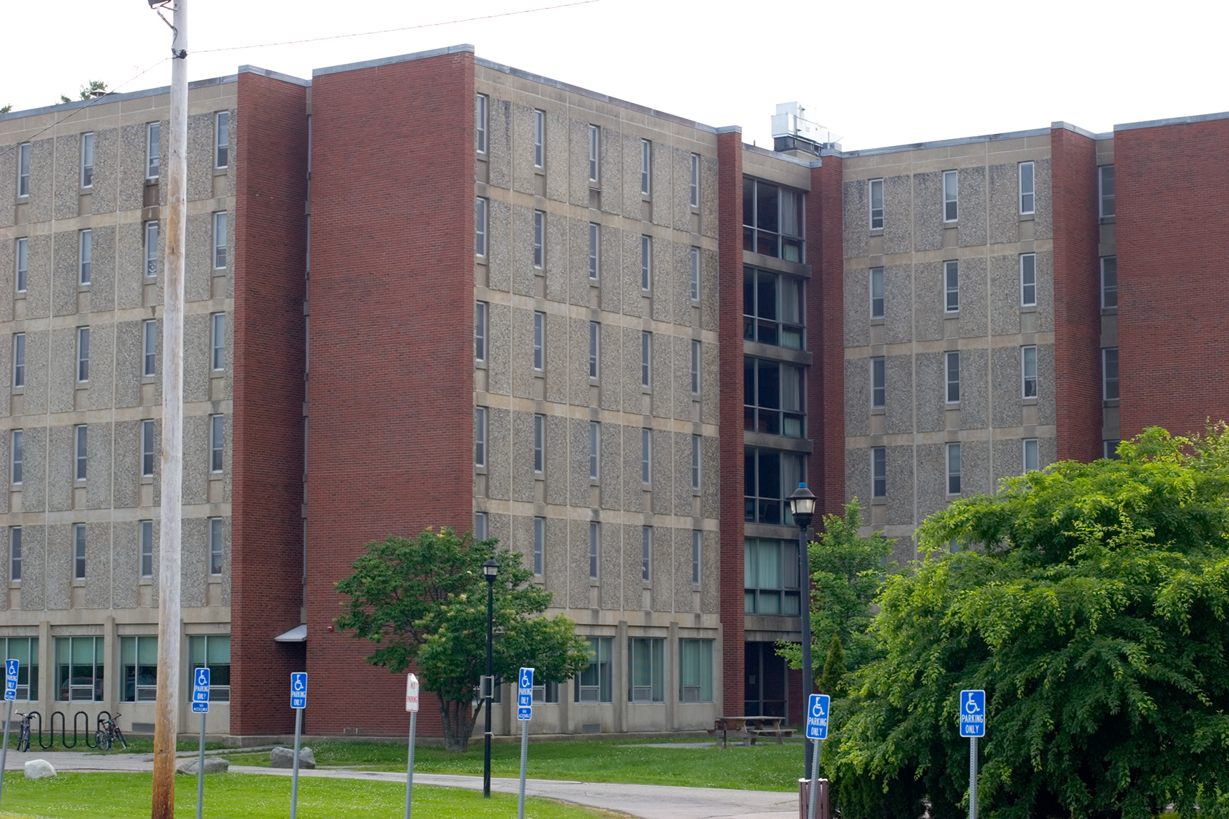 The University of New Hampshire's Babcock Hall in Durham.